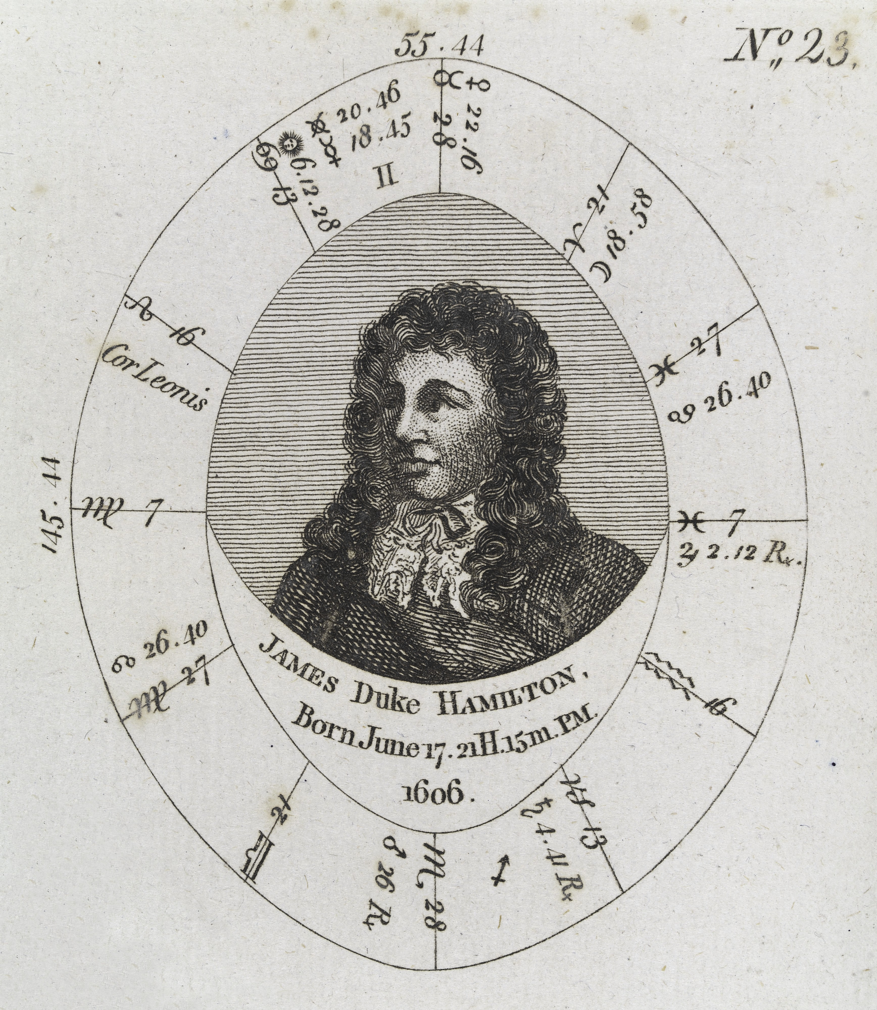 Astrological birth chart for Prince James, Duke of Hamilton Rare Books Keywords: James Hamilton, 1st Duke of Hamilton